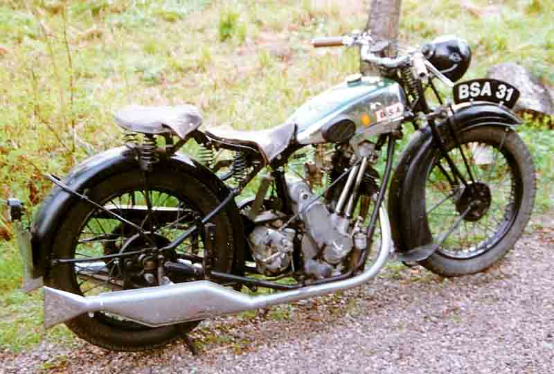 BSA Slooper 350 cc 1931